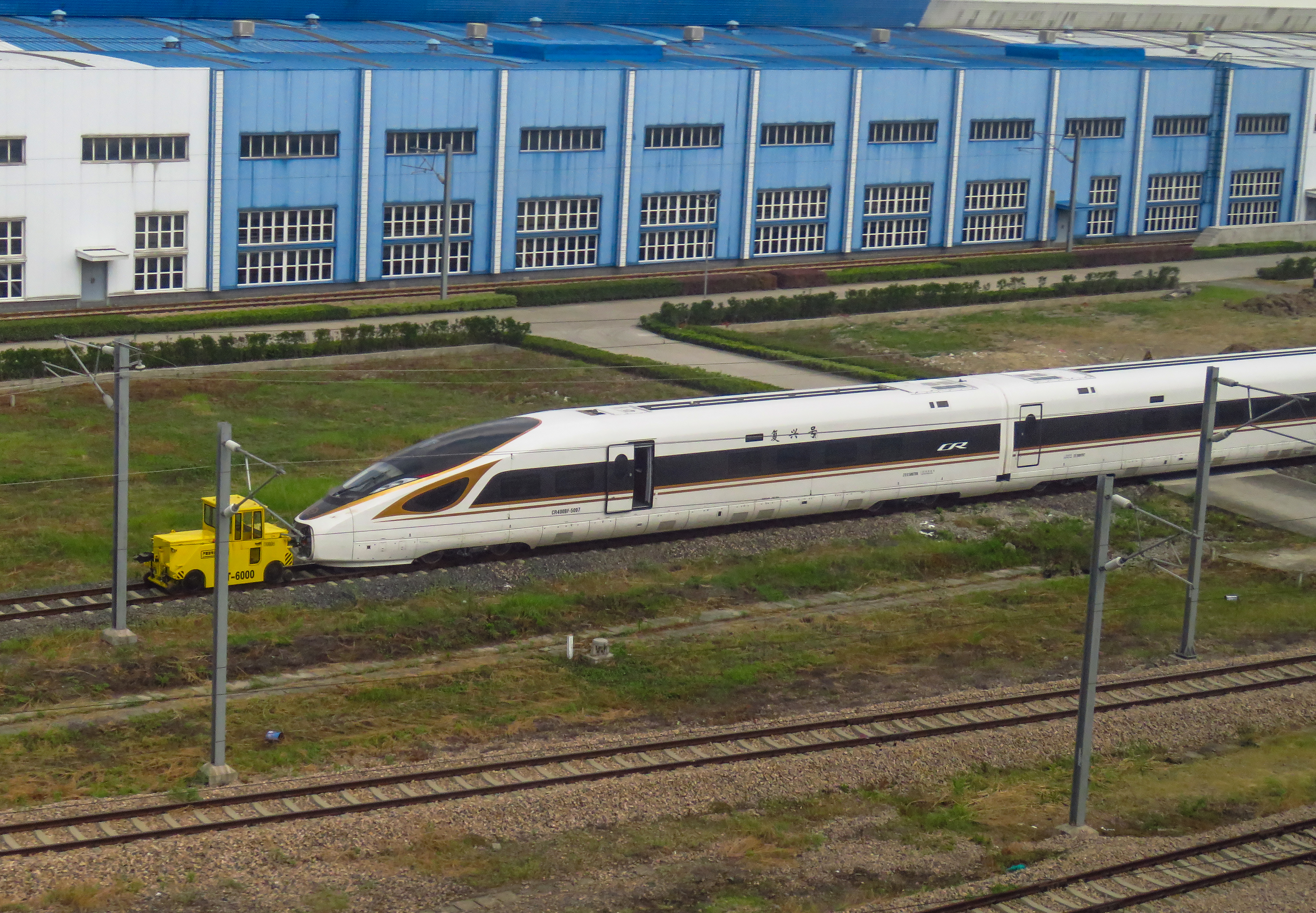 Taken from G1 - those 'BFs don't have stickers.